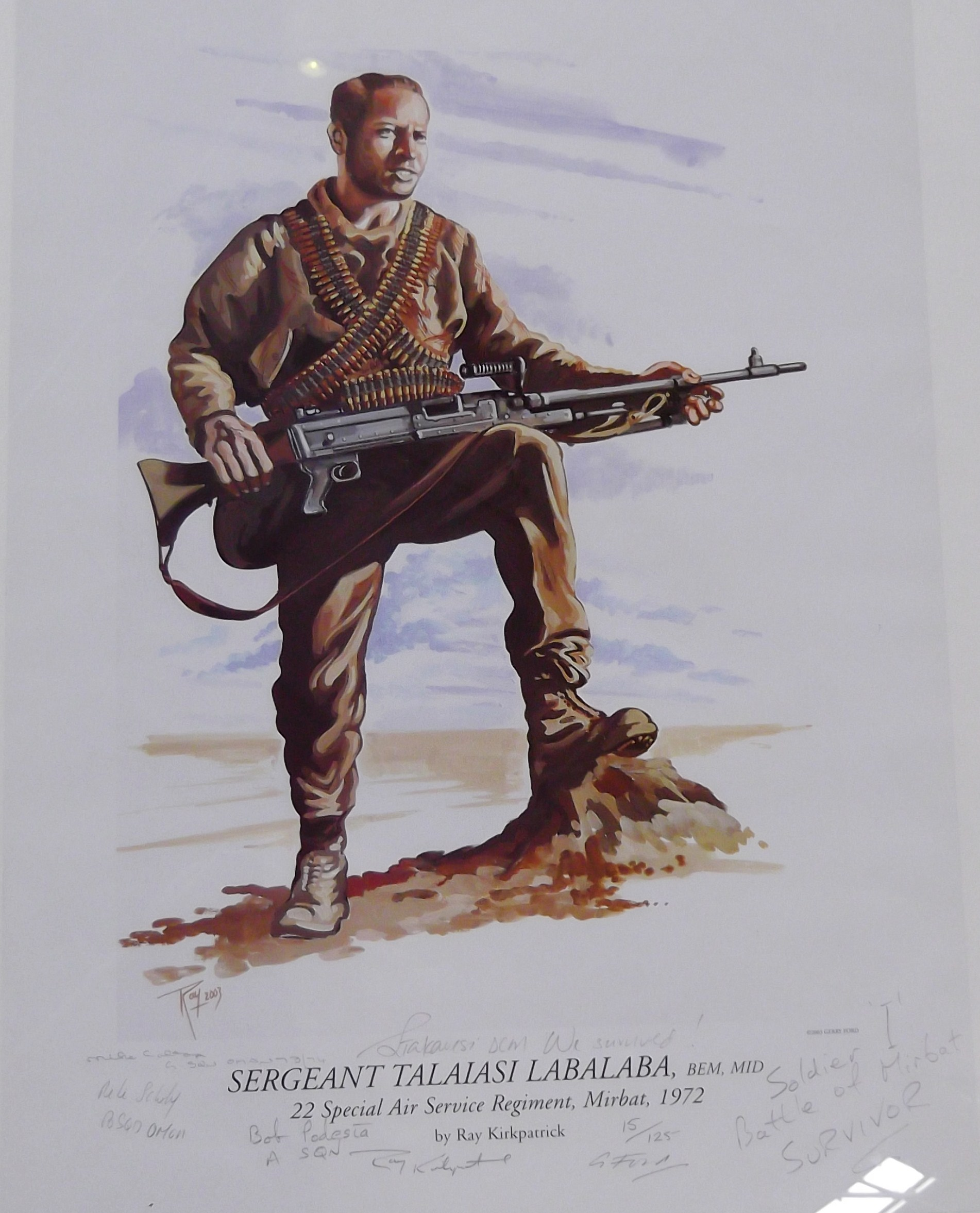 Memorial to SAS Sergeant Talaiasi Labalaba at Royal Artillery Museum Woolwich London.